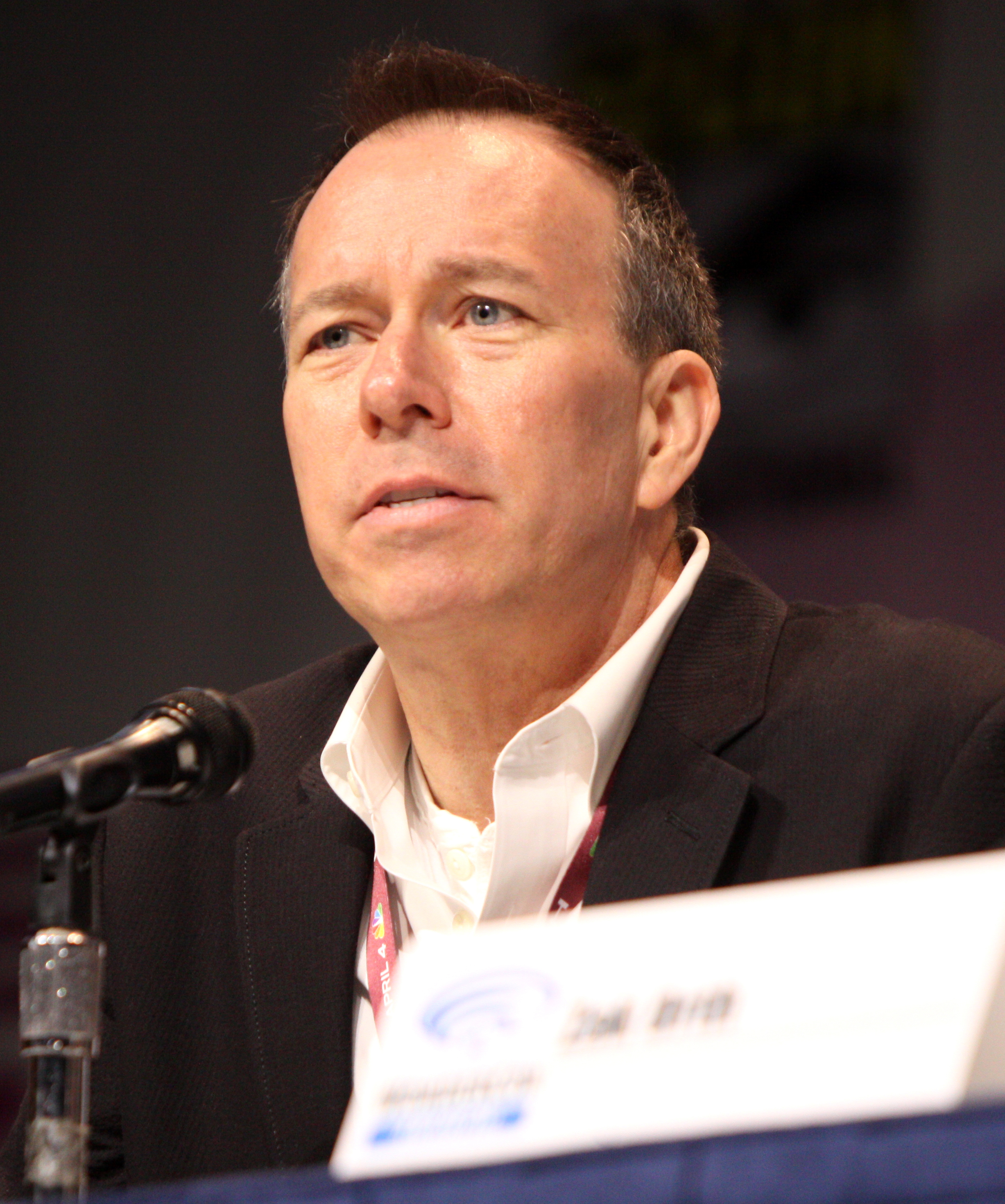 David Rambo speaking at the 2013 WonderCon in Anaheim, California on March 30, 2013.